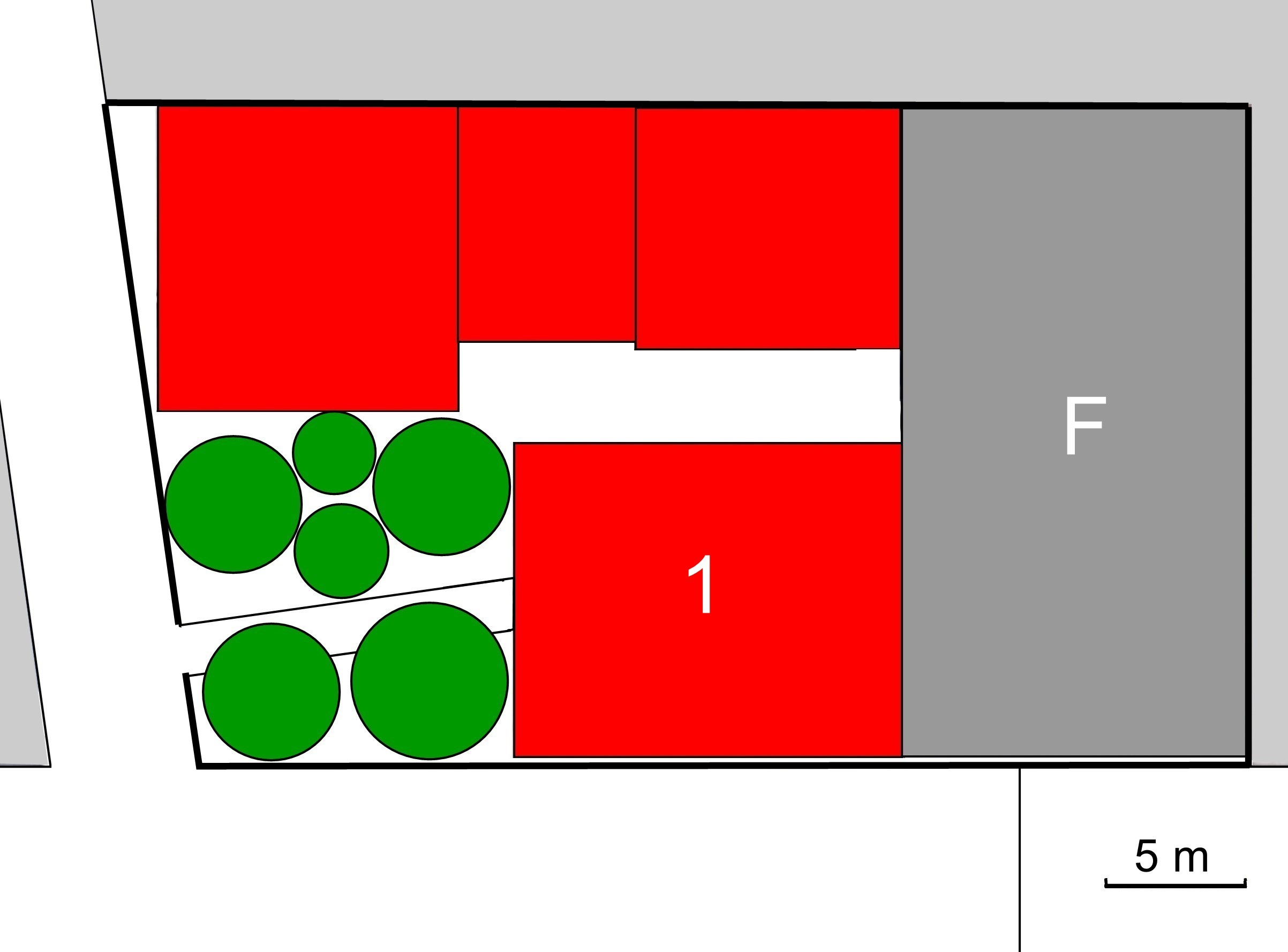 Layout of Bairin-ji (Taitô), Tokyo